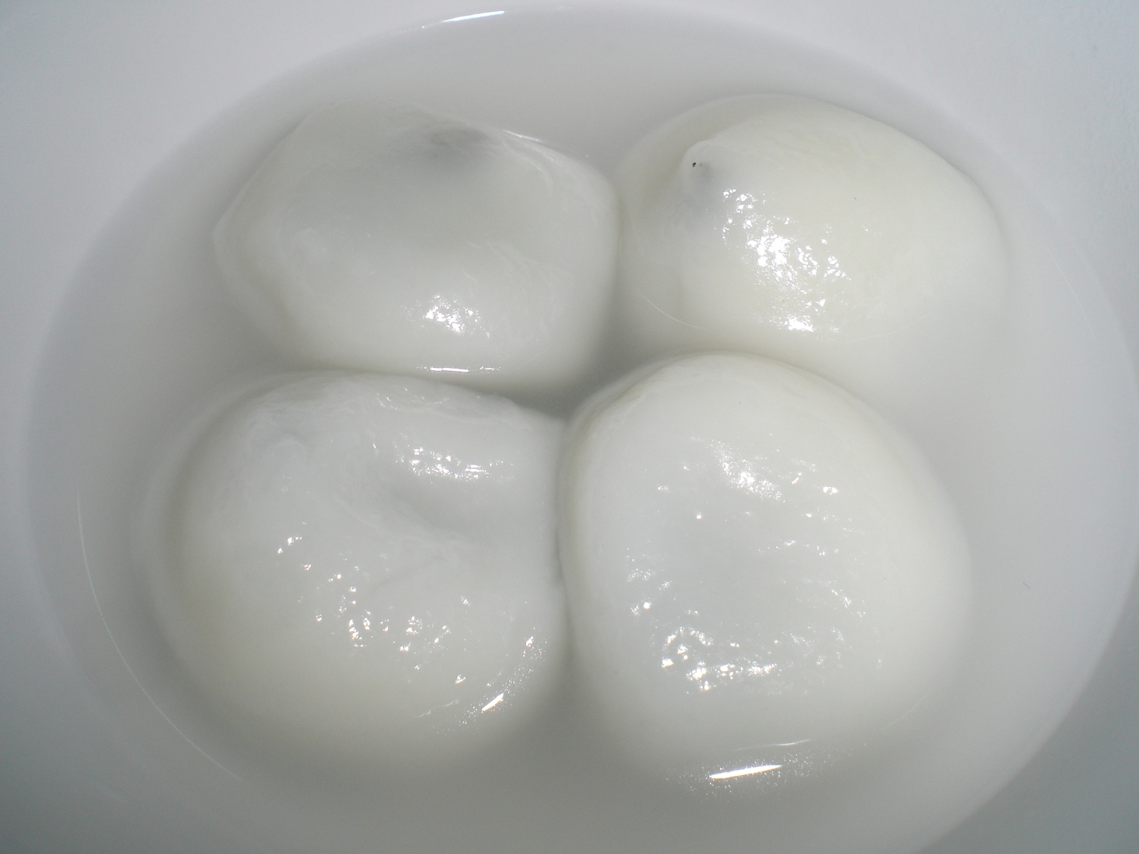 甜食zh:湯圓